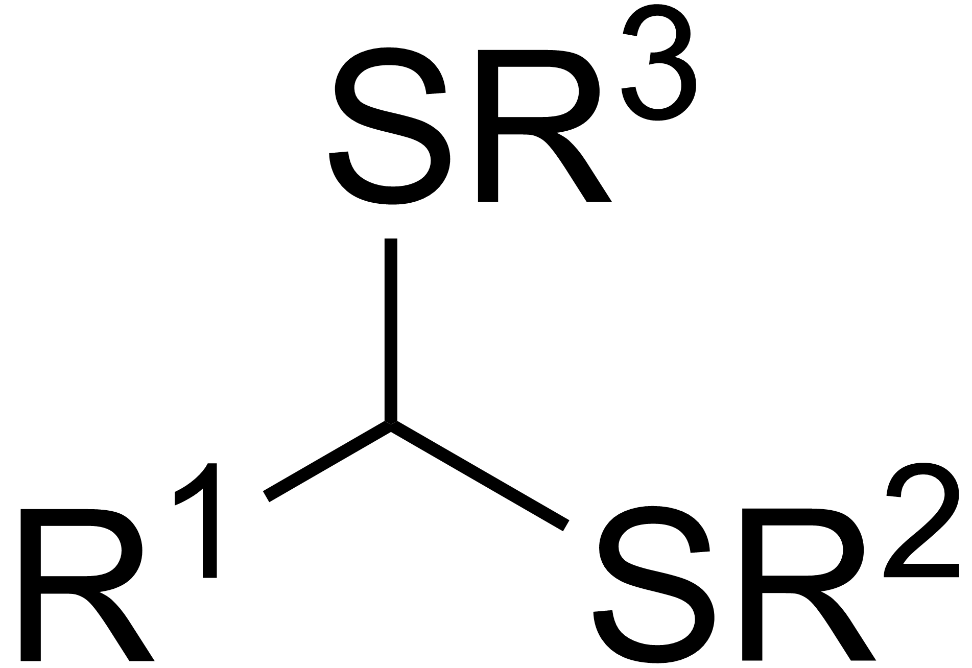 general chemical structure of a dithioacetal